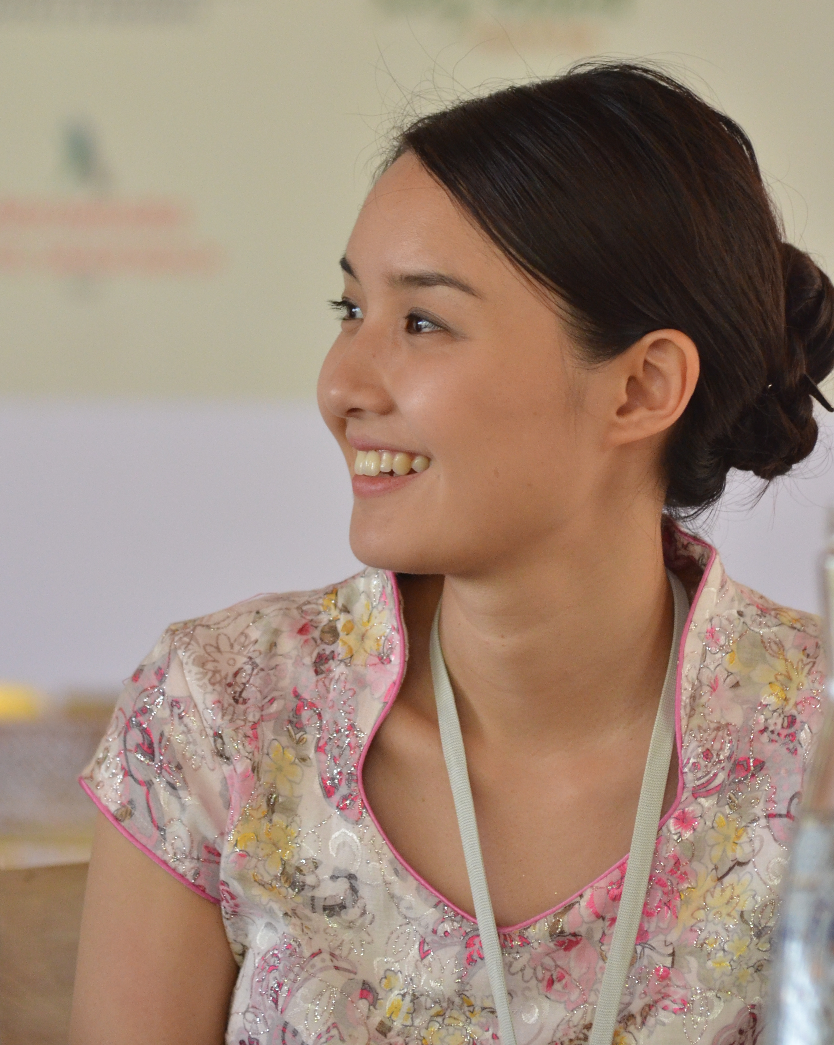 Ubud Writers & Readers Festival 2012. Image credit Anggara Mahendra.